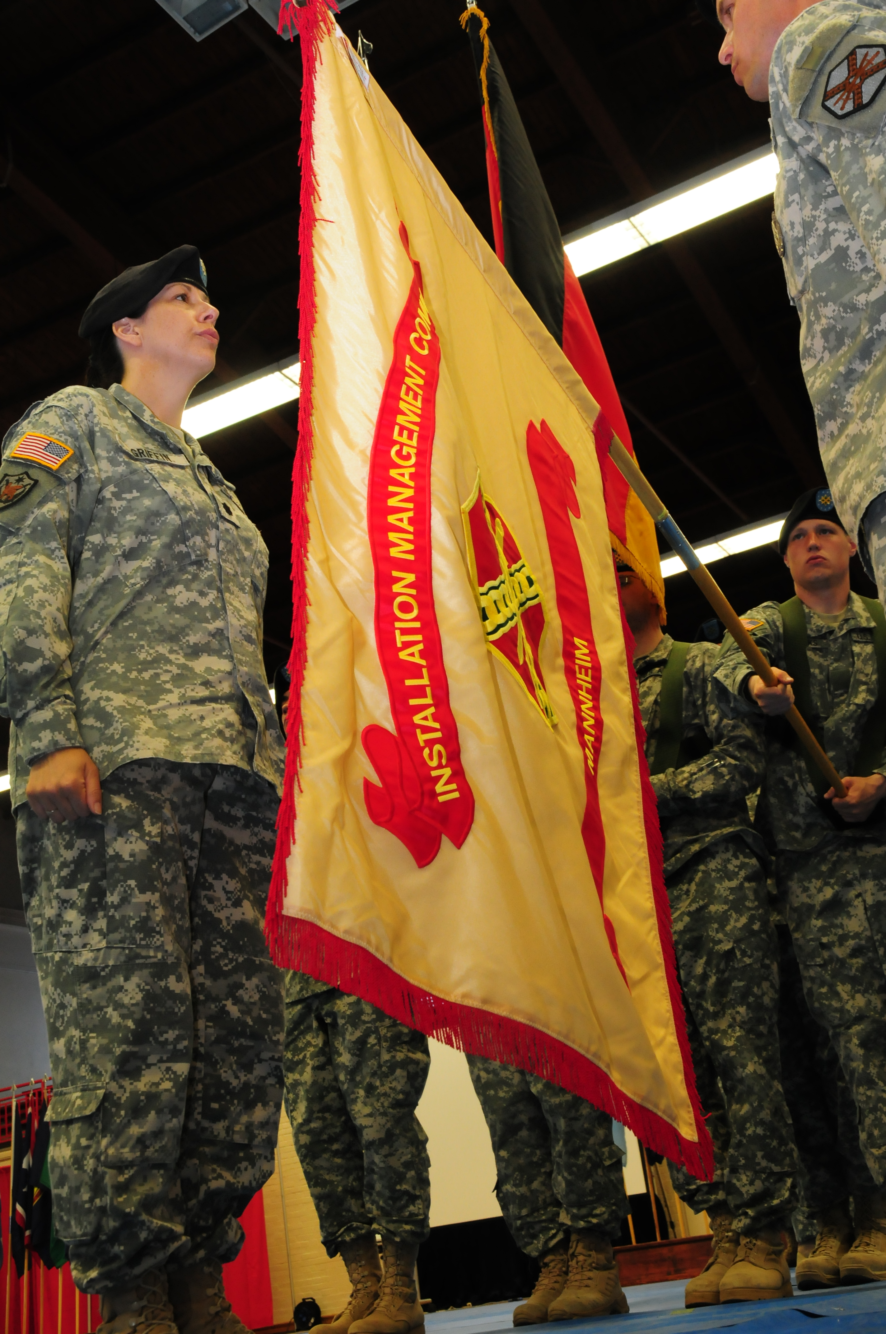 The U.S. Army Garrison Mannheim cased its colors in a Relinquishment of Command and Deactivation Ceremony on Benjamin Franklin Village in Mannheim May 31 (Commander Elizabeth Griffin).